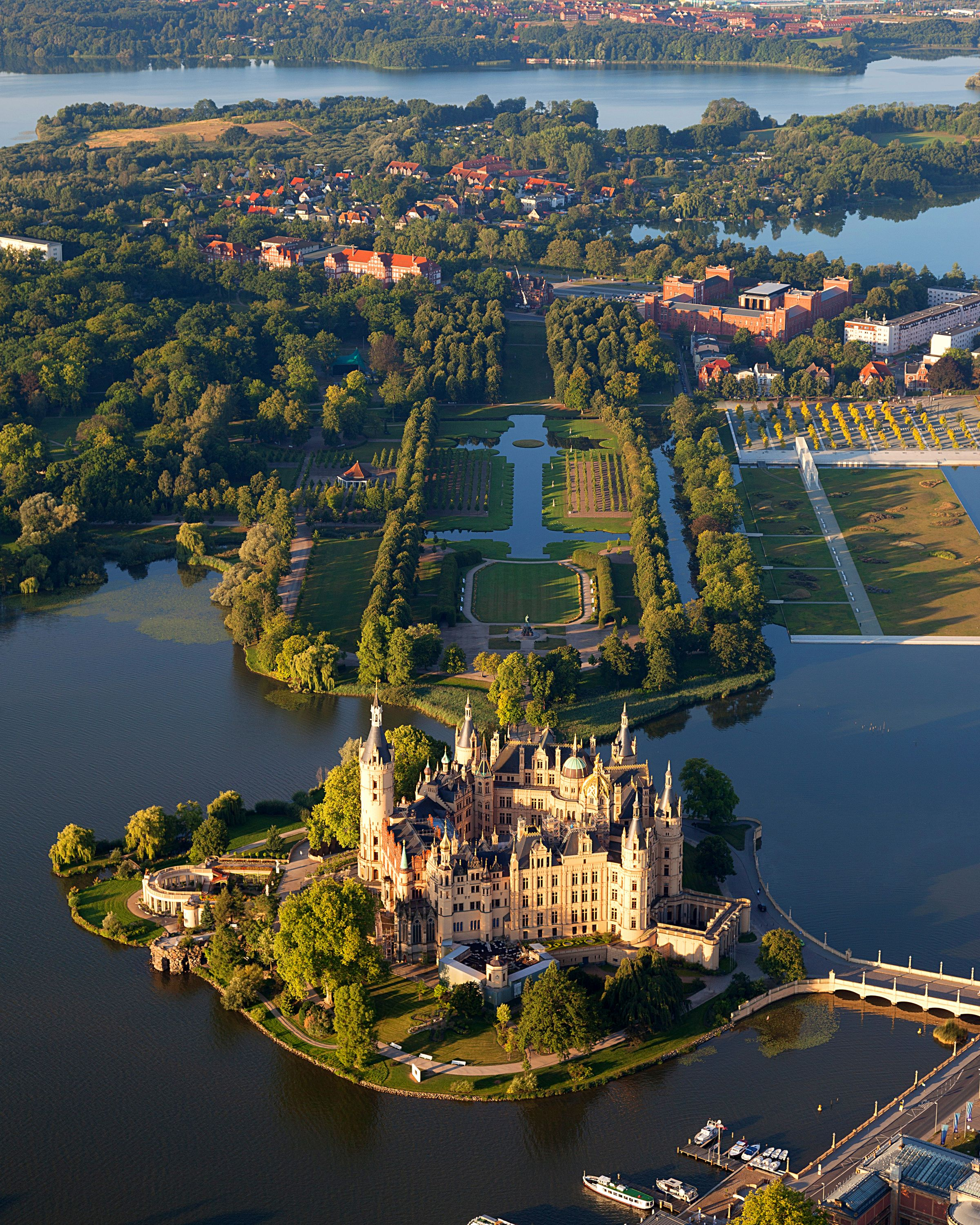 Schwerin Palace on its island at Lake Schwerin, aerial view